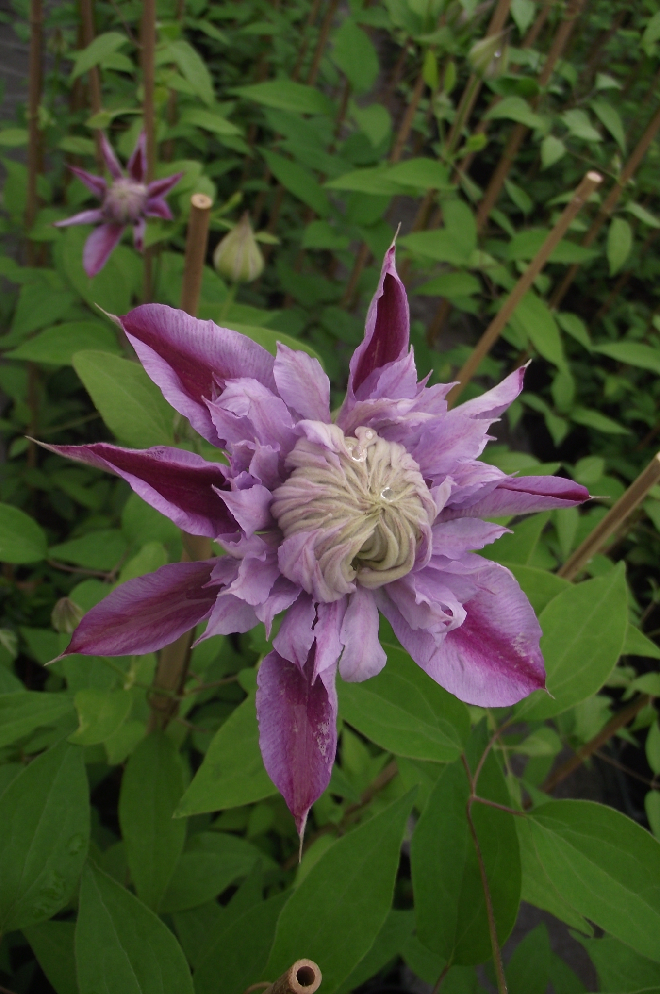 Clematis Evijohill